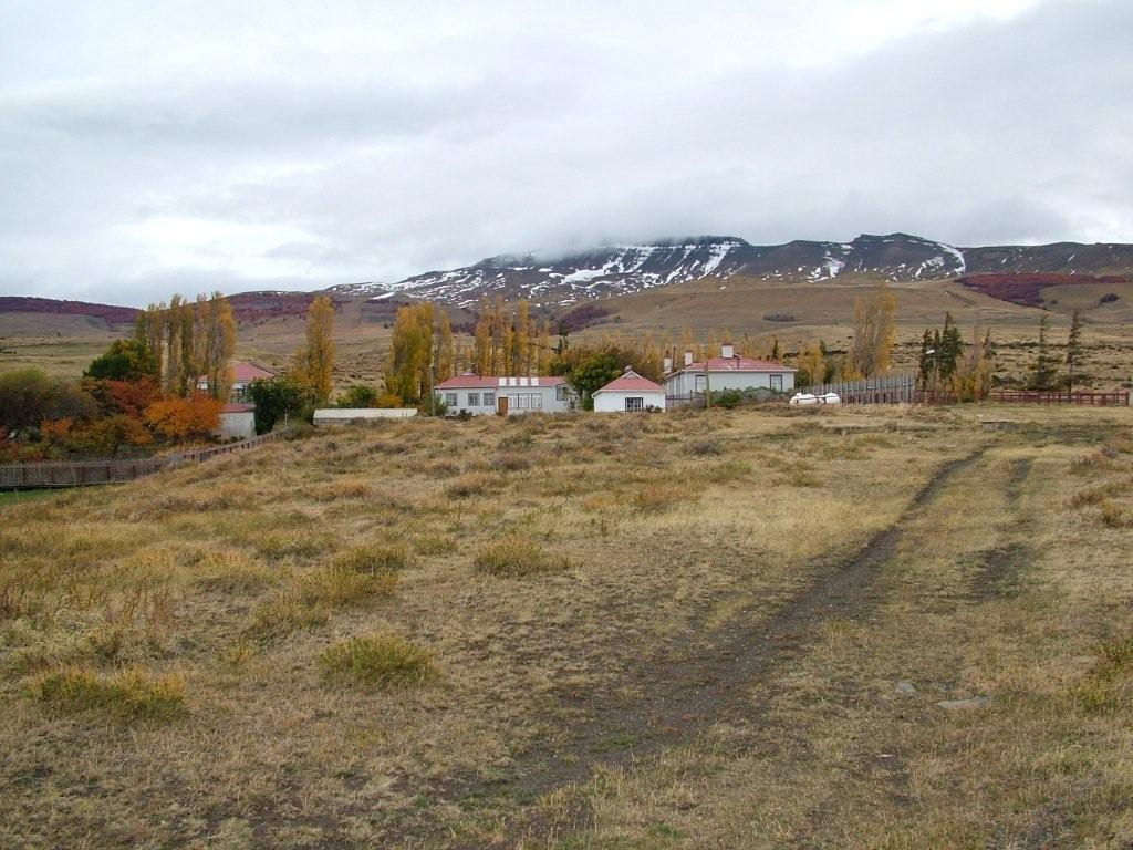 Cerro Guido farm, north from Cerro Castillo, (Torres del Paine)